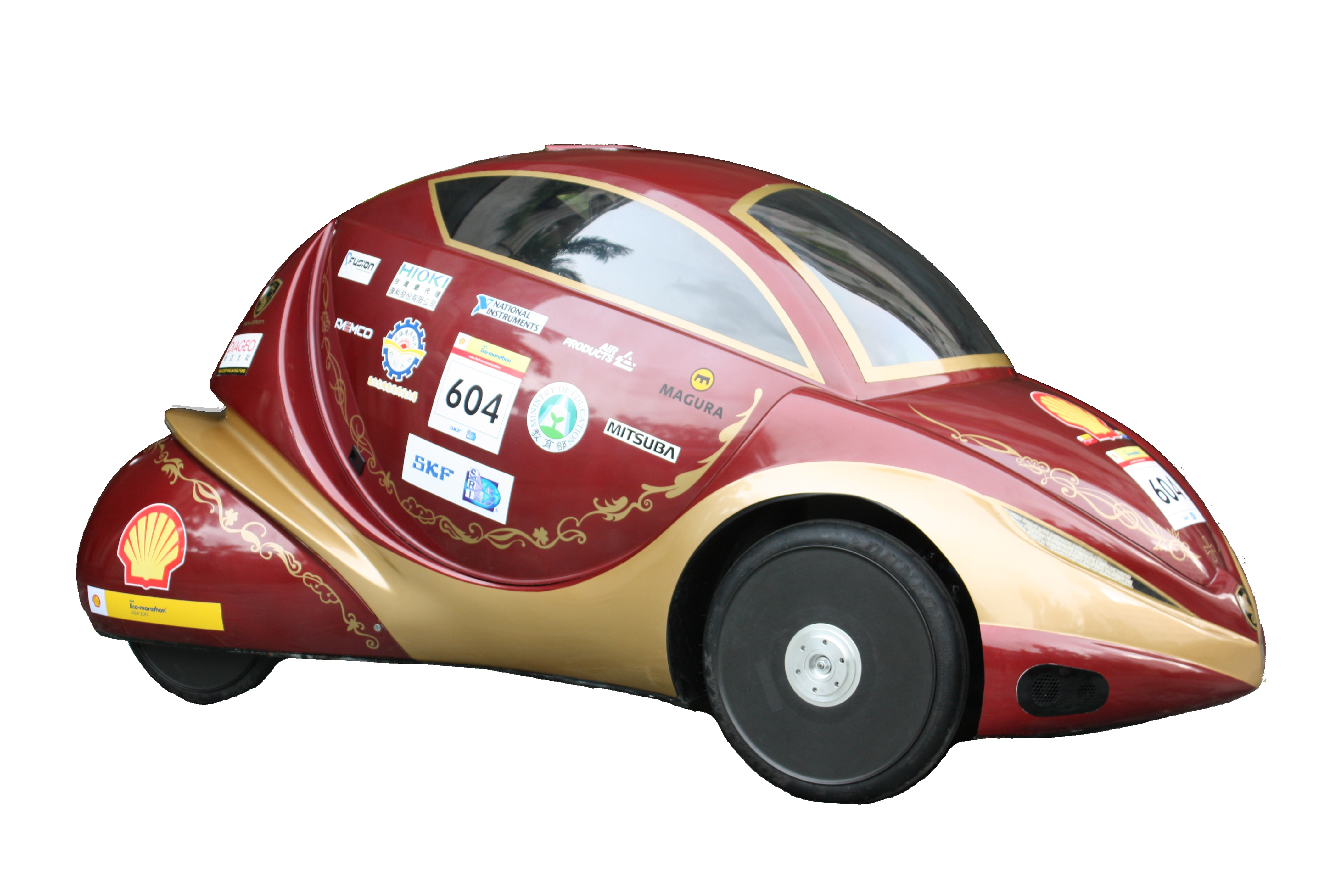 SOlOMON Fuel Cell Vehicle Team LOHAS PIXIE II. Shell Eco-marathon Asia 2011